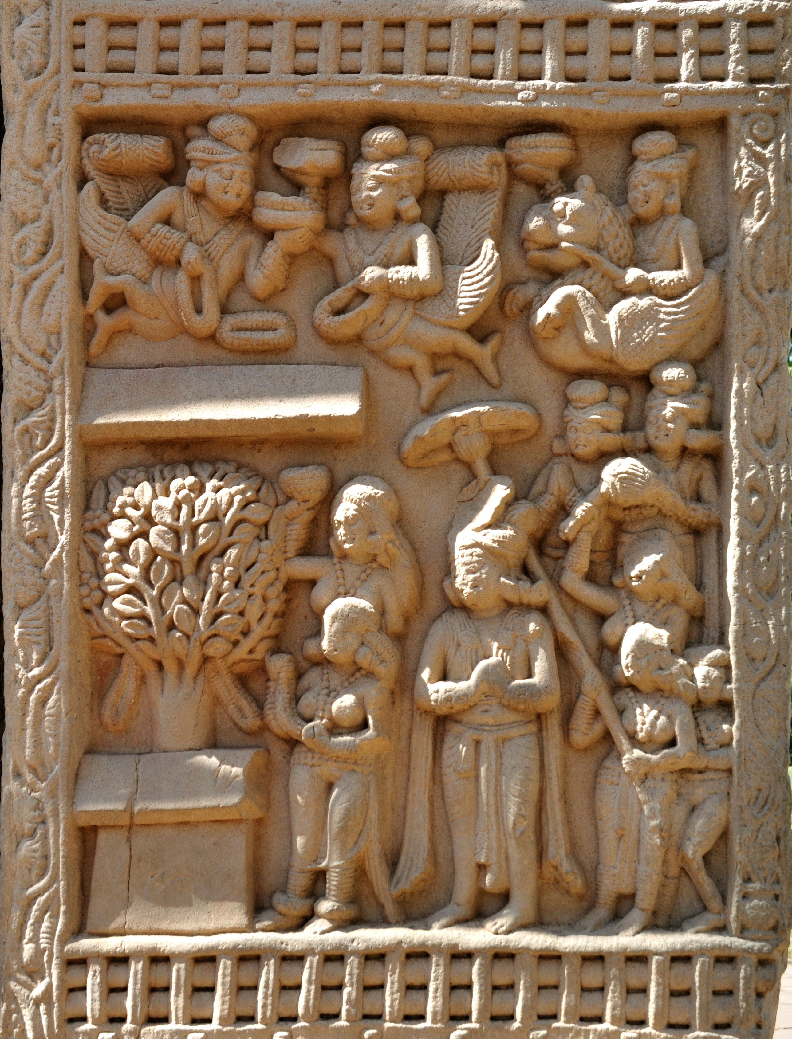 Miracle at Kapilavastu Suddhodana praying as his son the Buddha rises in the air with only path visible Sanchi Stupa 1 Northern Gateway. Marshall p.58 Third Panel